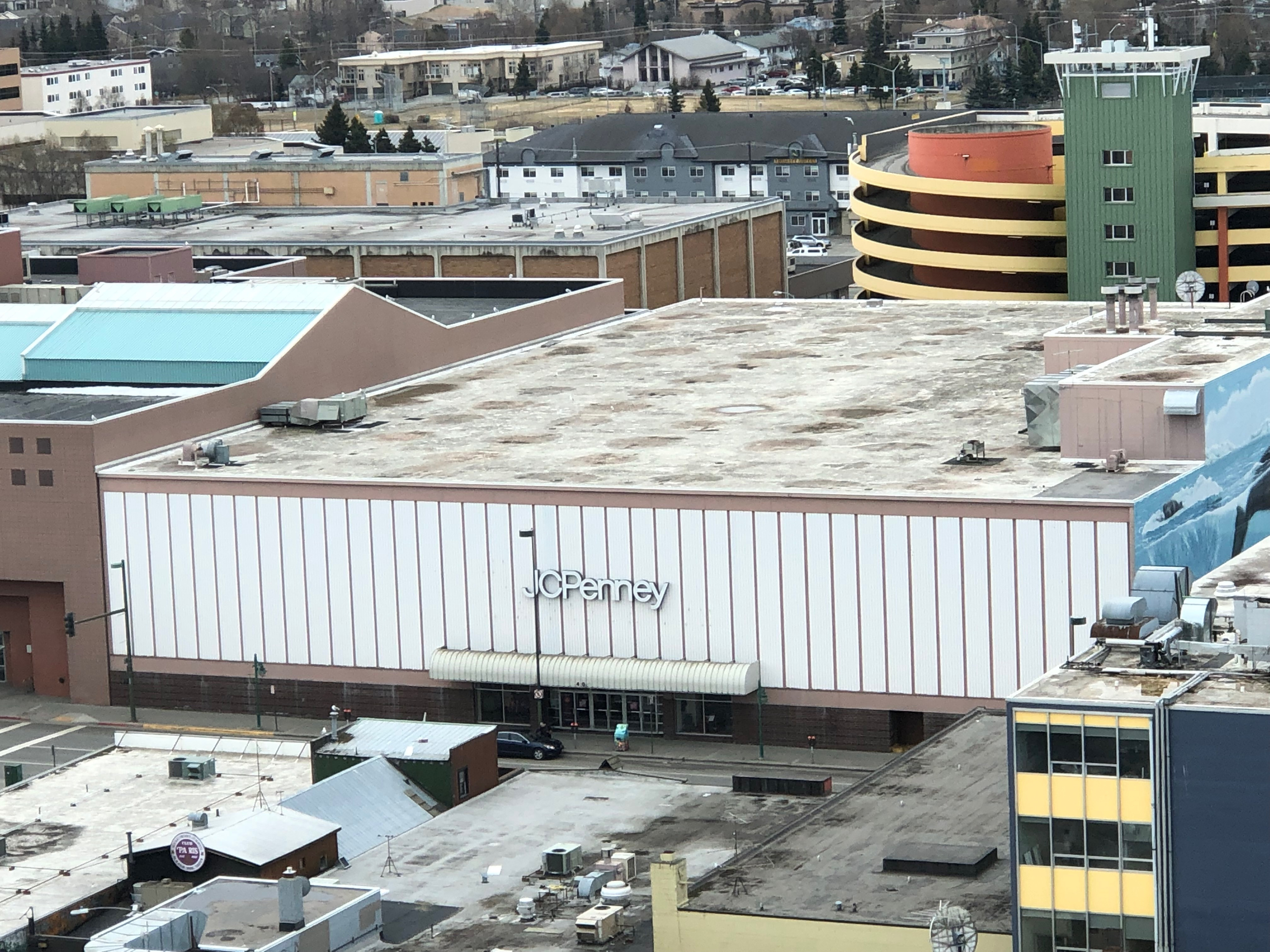 JCPenny building in Anchorage